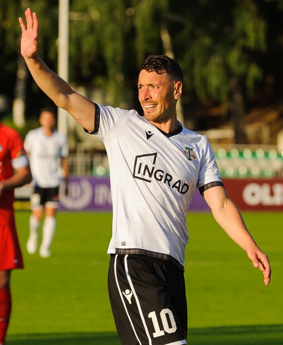 Igor Lebedenko with FC Torpedo Moscow in a game against FC Yenisey Krasnoyarsk.